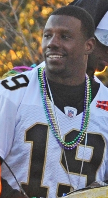 February 9, 2010